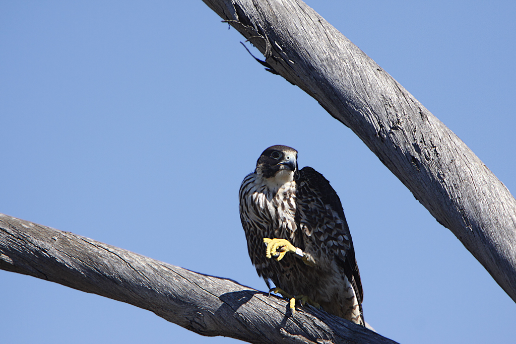 This Peregrine Falcon Falco peregrinus, was perched in the shadows on the tree branch at Bolsa Chica, California. To properly expose the bird, I used +2/3 exposure compensation and darkened the sky back to its original color in Photoshop. To give me greater depth field I used a high ISO (800) with my camera's high ISO speed noise reduction setting on.